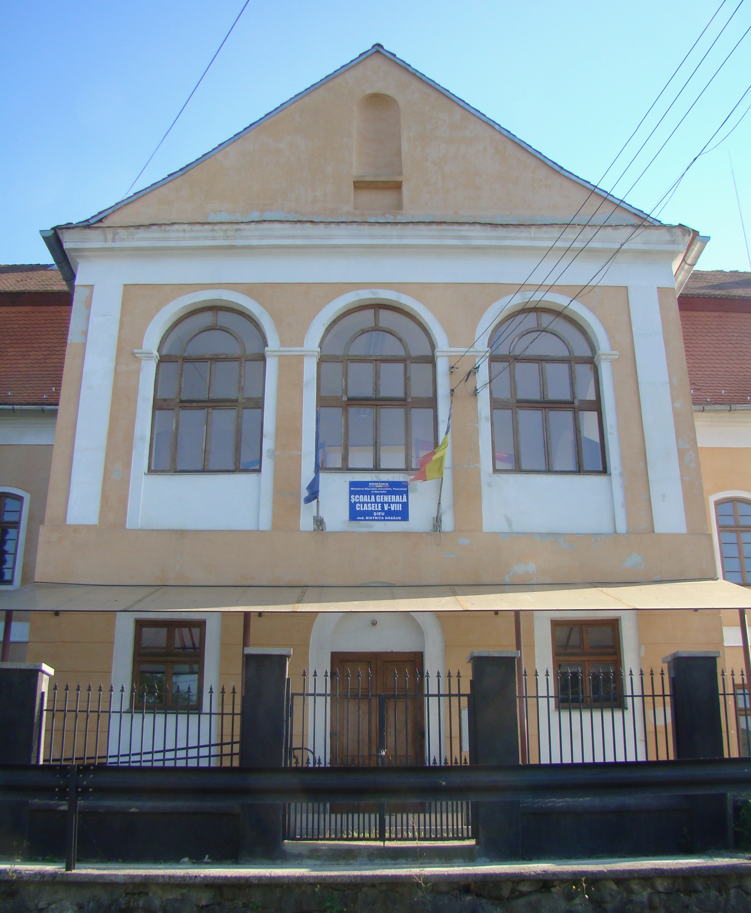 Rákóczi Castle in Șieu, Bistrița-Năsăud county, Romania